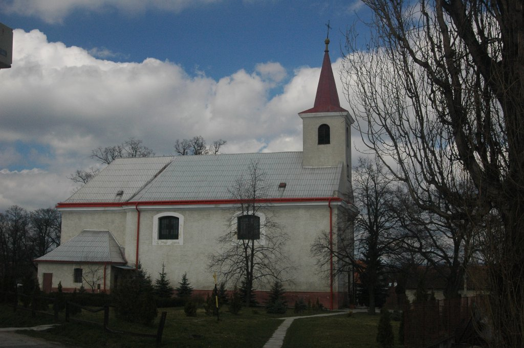 Boleráz, St. Michael the Archangel Church (1787)